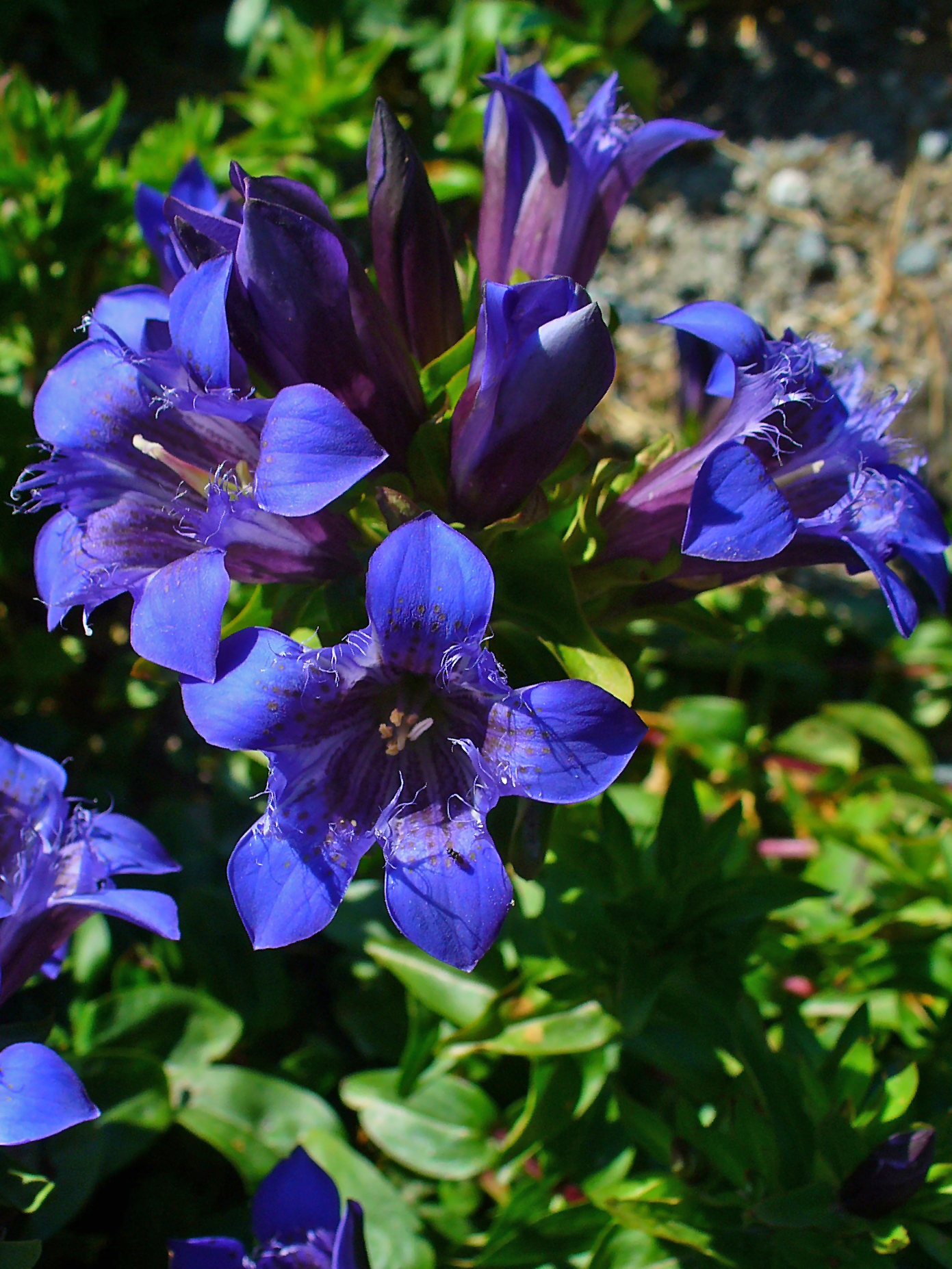 Crested Gentian, flowers; Heidi’s Flower Trail, St. Moritz, Engadin, Switzerland, altidude ca. 2.000 m.